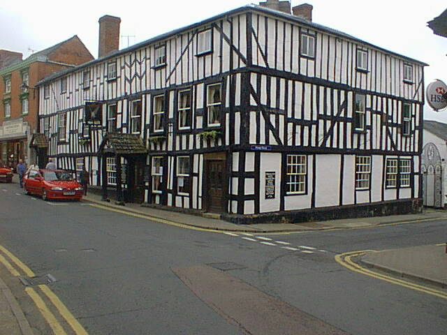 The Falcon Pub, Bromyard